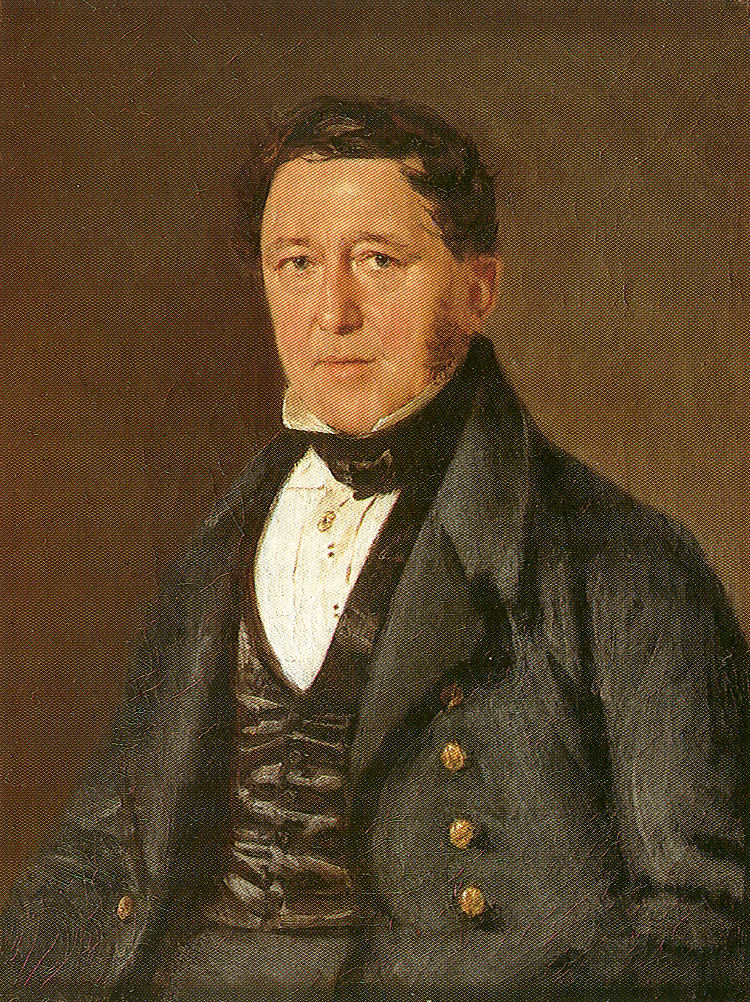 Peter Hiort Lorenzen (1791-1845), Danish merchant and politician